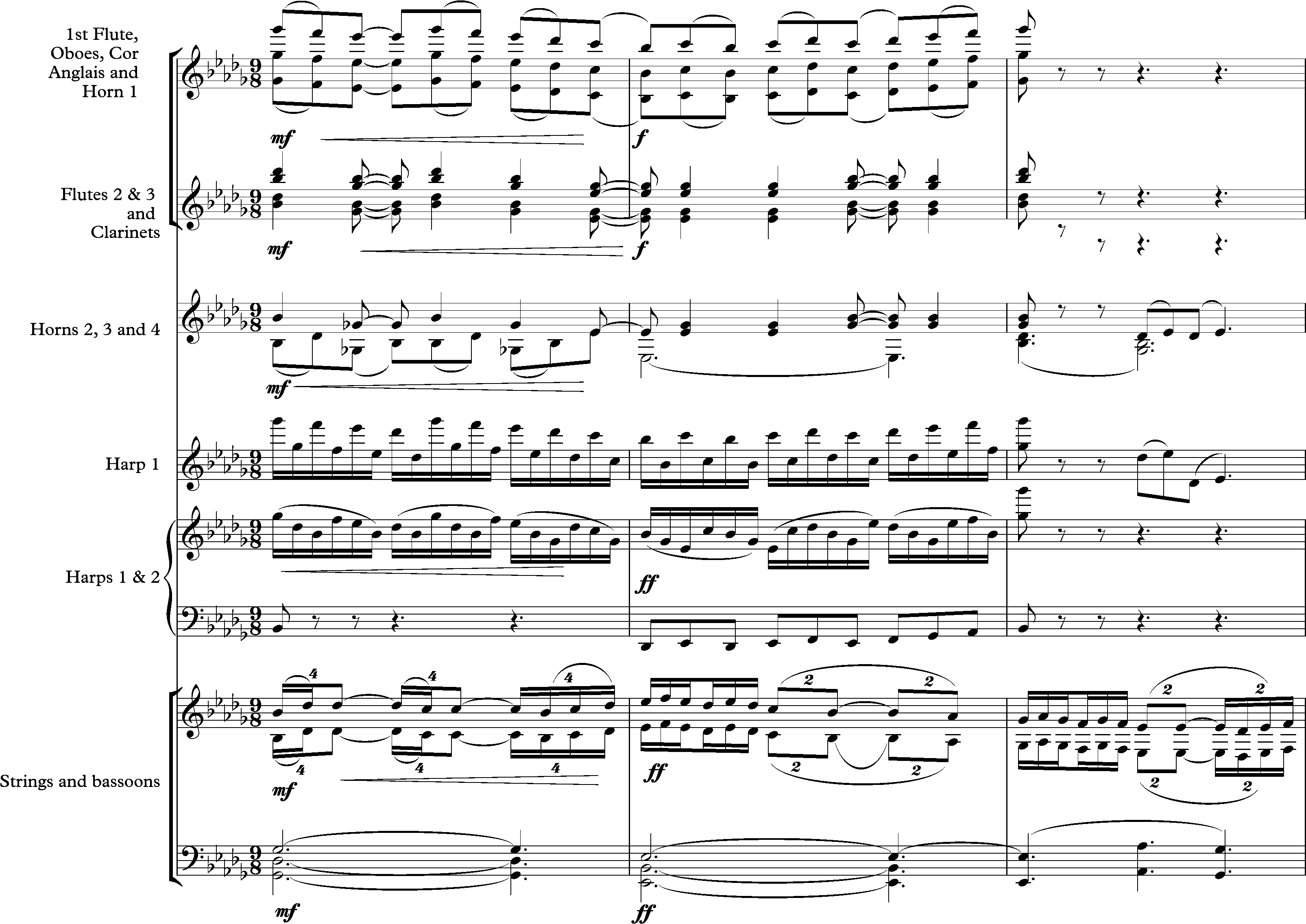 Debussy, Prelude a l'apres midi d'un faune, Figure 7, bars 11-13